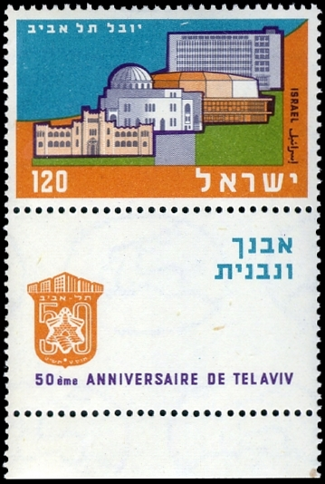 Israeli postage stamp issued toward 50th anniversary of Tel Aviv and depicting 4 prominent buildings in Tel Aviv: Herzeliyya Gimnasium, Great Synagogue, Mann Auditorium and Histadrut building - 120 mil. Inscription on tab: "Again I will build thee, and thou shalt be built...", "50th anniversary of Tel Aviv"